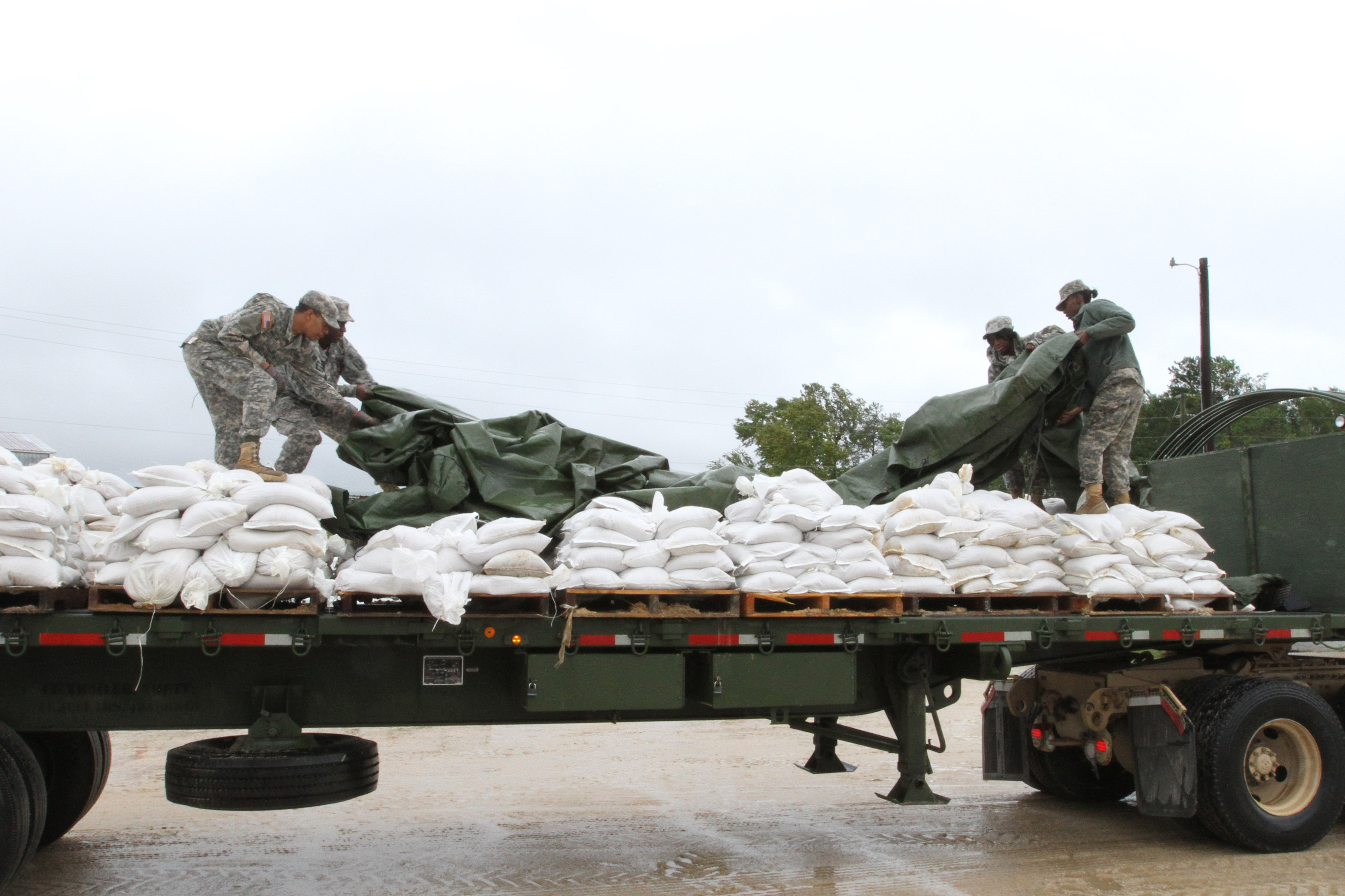 South Carolina National Guardsman from the 1052th Transportation Company cover a truckload of sandbags preparing to head out to one of several locations in S.C. at the Wateree Correctional Facility, Oct. 3, 2015 to prevent flooding in low-lying areas in the wake of Hurricane Joaquin. The National Guardsmen transported the sandbags after the inmates filled them and then delivered the completed sandbags to one of the drop-off points in Chester, Columbia, Greenville, Florence and Clinton. Soldiers from the S.C. National Guard train throughout the year in preparation for these types of natural events and are always at the ready when the Governor calls to assist in emergency response or disaster clean up. (U.S. Army National Guard Photo by Sgt. Brad Mincey/Released)